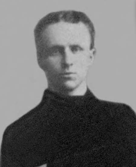 Photo with Canadian Soo (IHL)